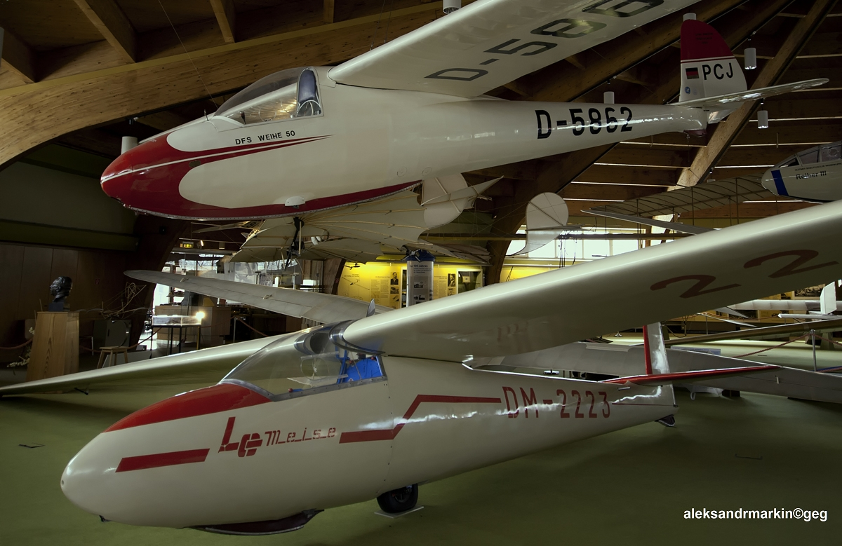 D-5862 Weihe 1938/51 original.DM-2223 Le Meise 1960 original.